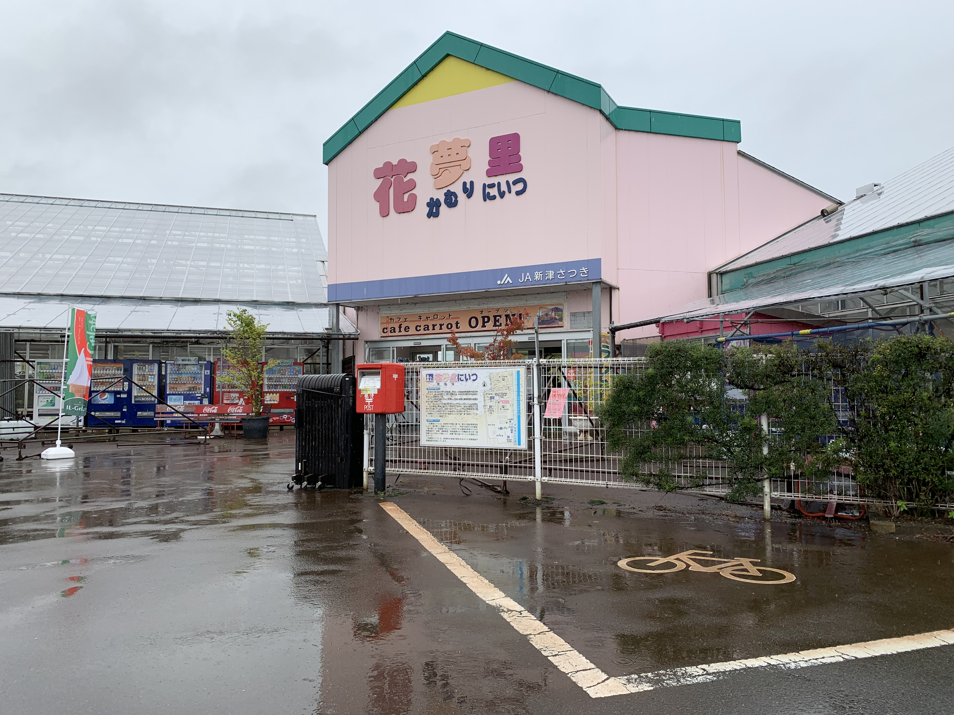 Kamuri Niitsu, Roadside Station, Niigata, Japan. Took photo in August 2019.